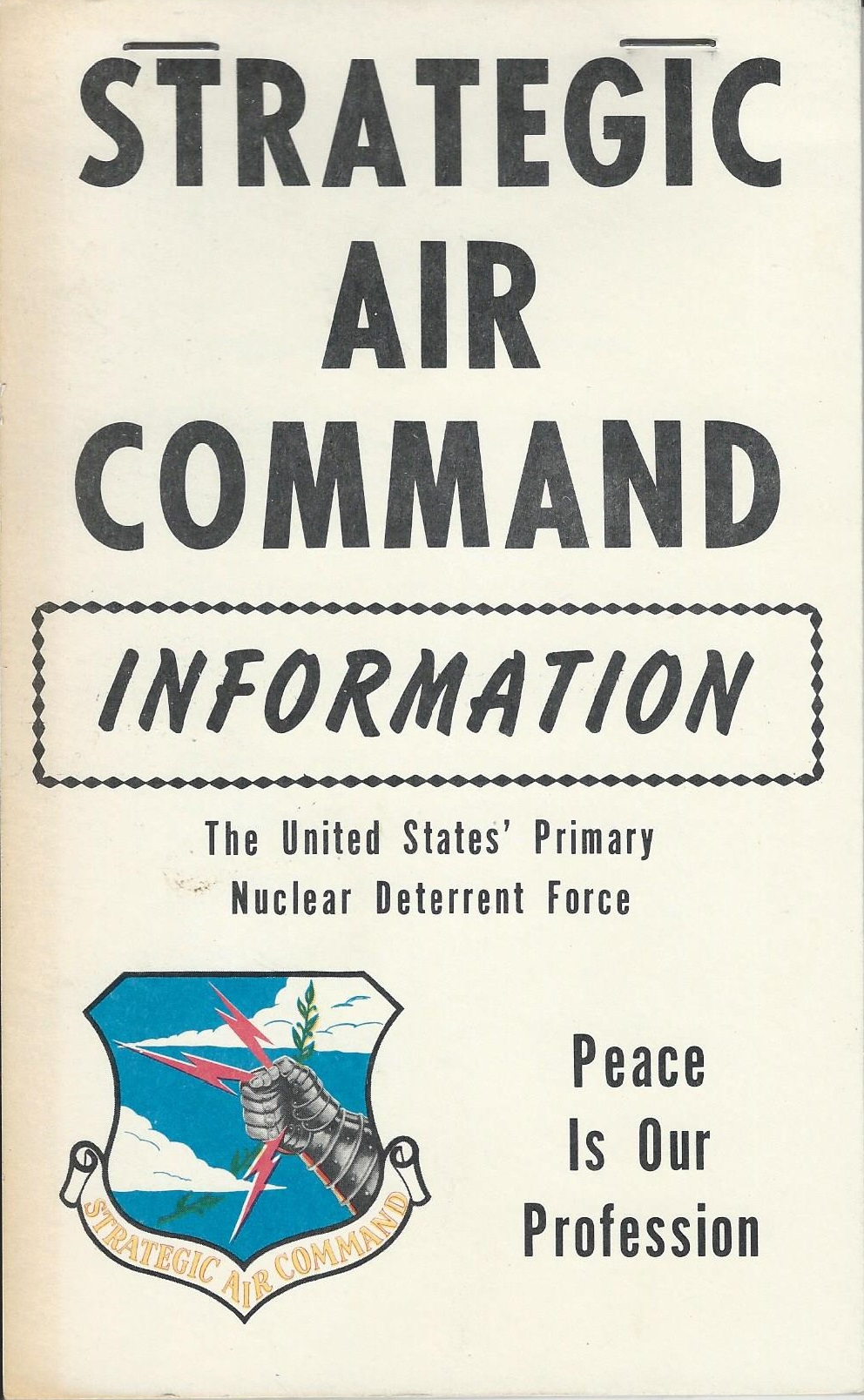 Cover of 5-by-8-inch stapled, 72-page information booklet put out by SAC to give background information on its mission and its capabilities. Billed as "Current as of 1 July 1975".